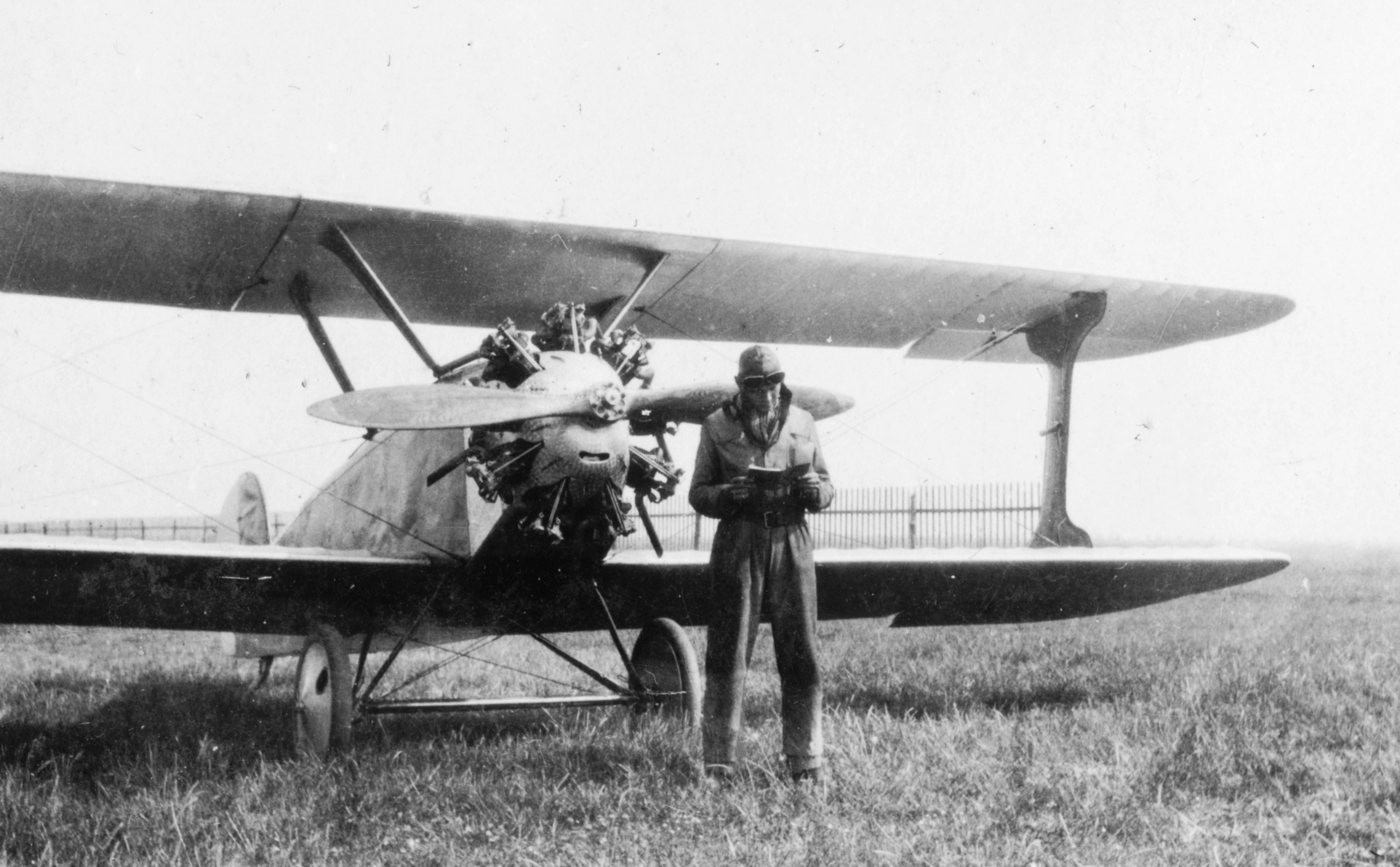 Tags: transport, airport, airplane, pilot, Hungarian brand, Weiss Manfréd-brand, biplane